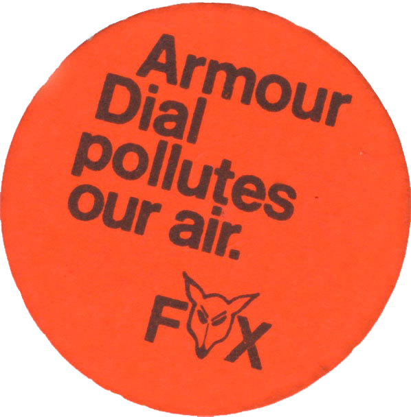 A bright-orange sticker created and distributed by James F. Phillips, known as "The Fox", for one of his direct action environmental activism campaigns against Armour Dial (Henkel Corporation).